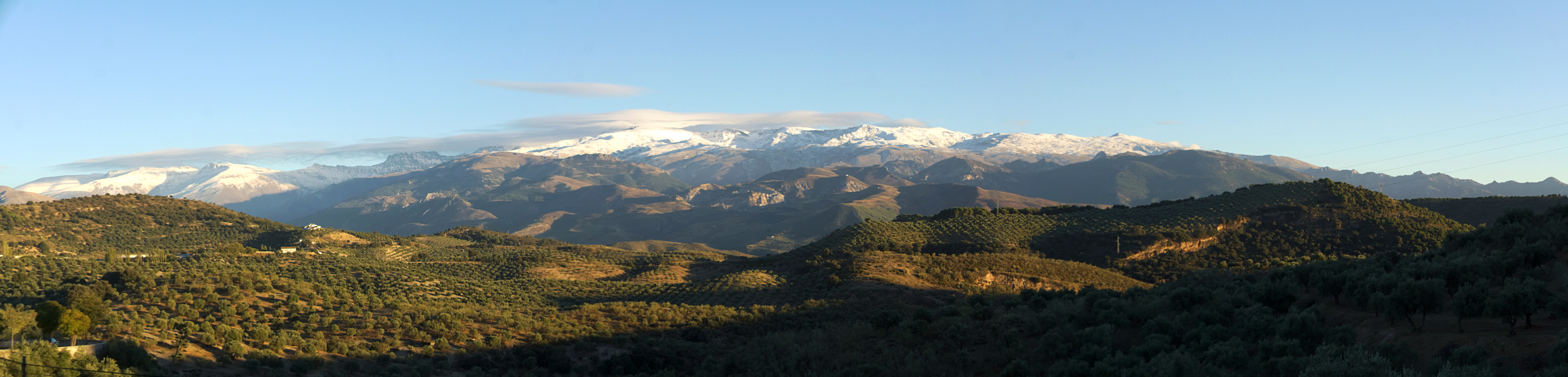 Sierra Nevada from Alquería de Fargue near Granada